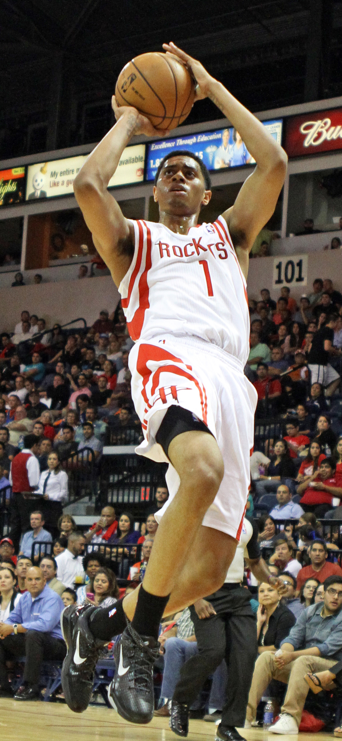 Professional bbal players